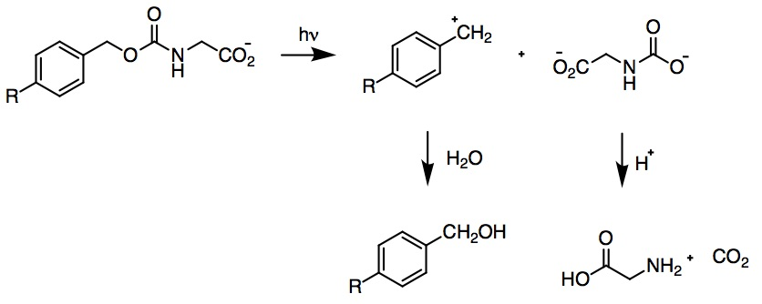 photorelease of glycine